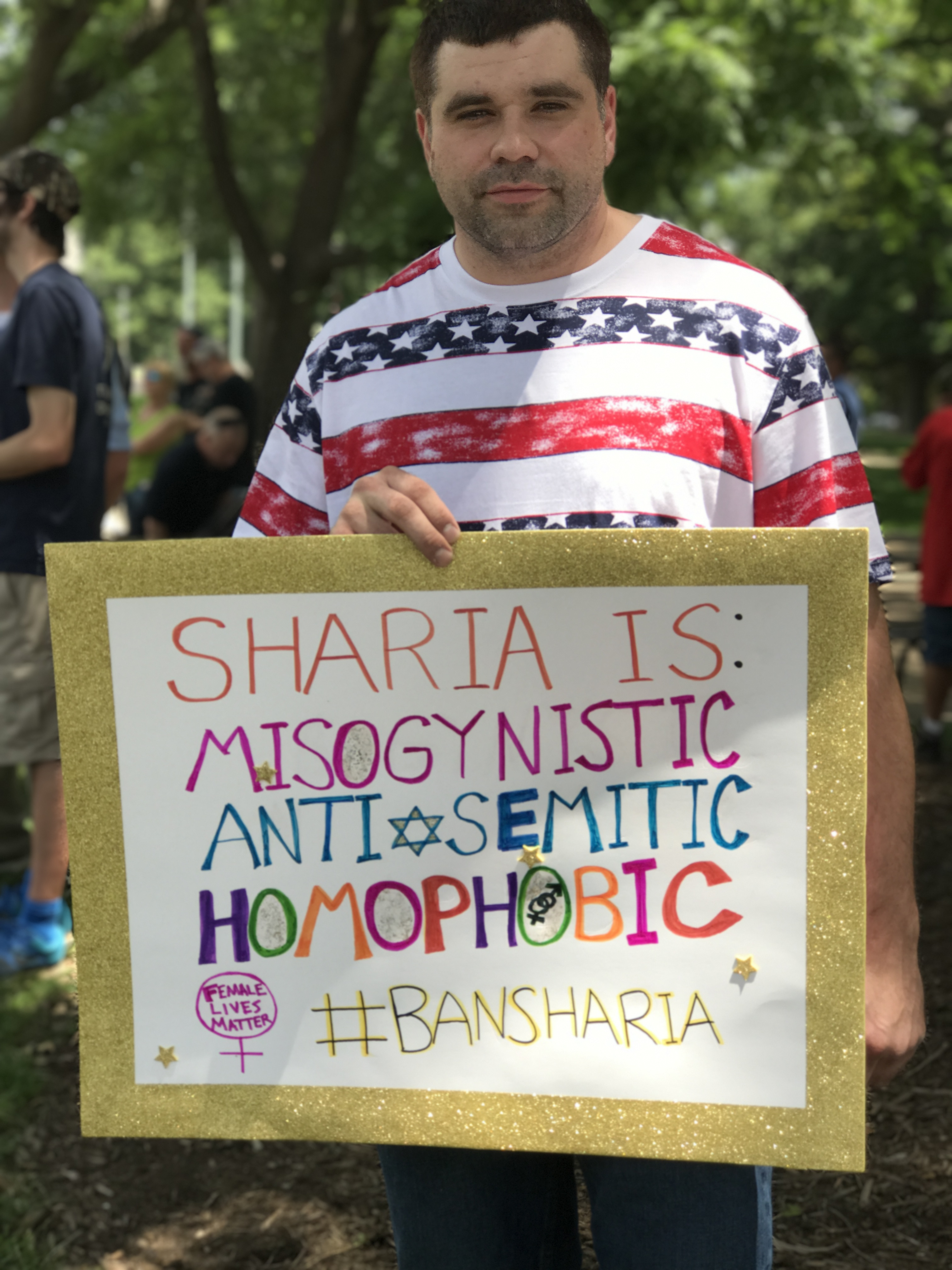 This was the "March Against Sharia" protest and counter-protest held in Raleigh on June 10, 2017.